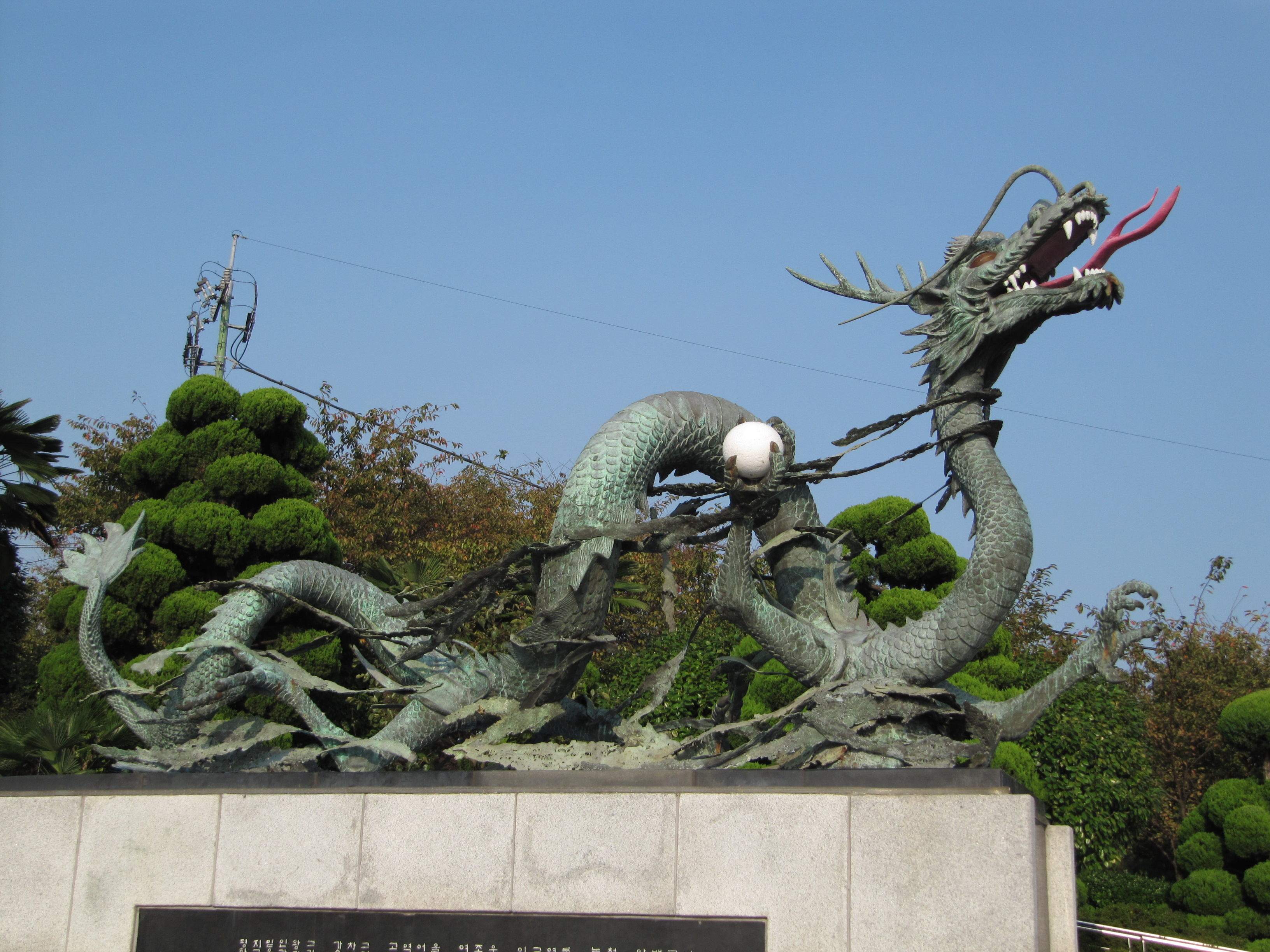 Busan tower, dragon near entry